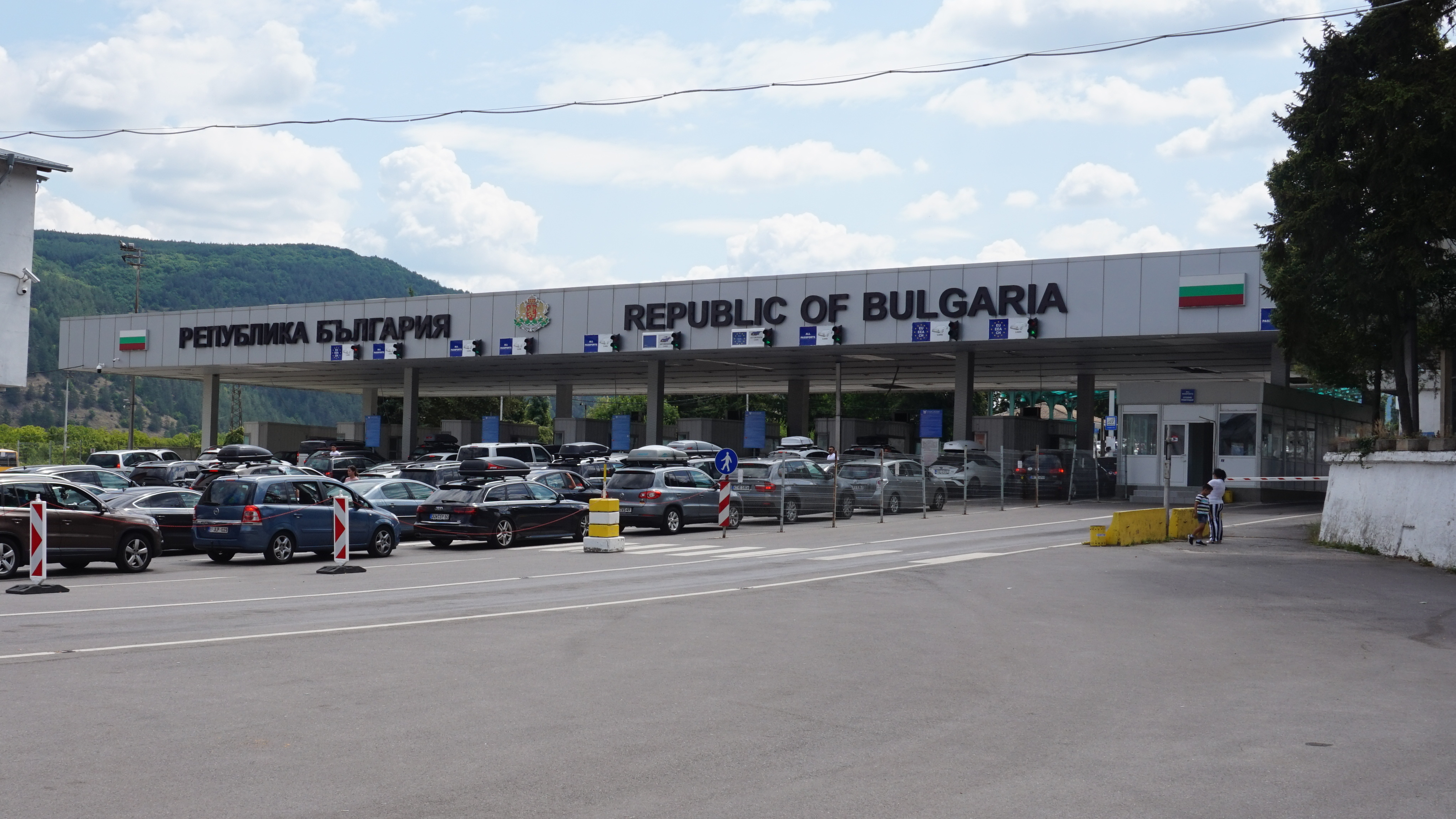 Gradina/Kalotina border crossing between Serbia and Bulgaria. Bulgarian checkpoint.